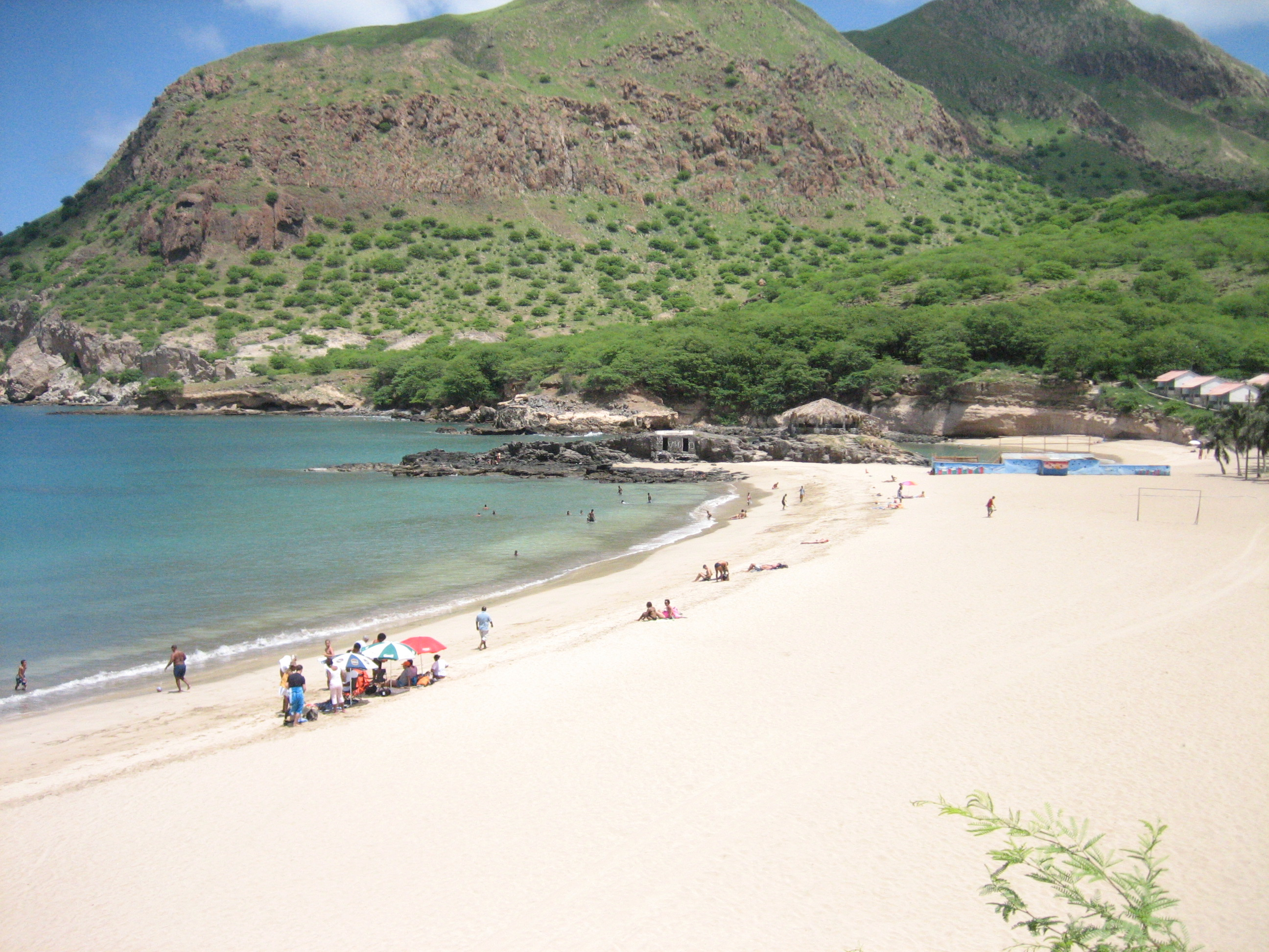 The famous beach of Tarrafal in the northwest of Santiago, Cape Verde.